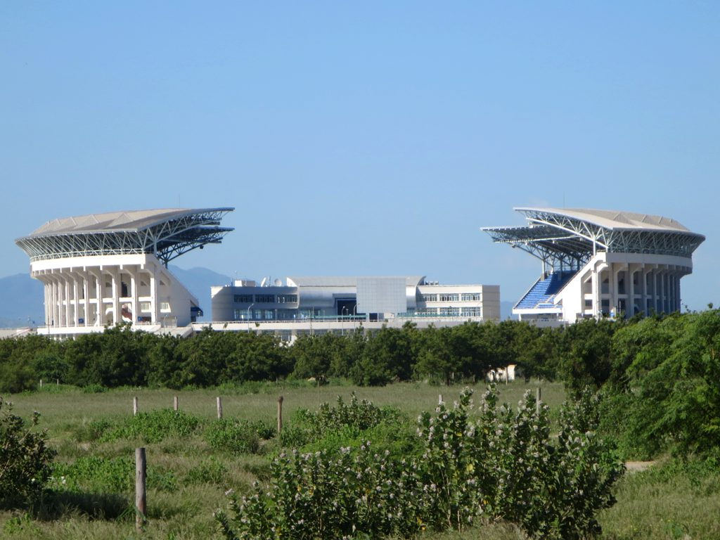 The Estádio Nacional de Ombaka just outside Benguela, Angola, was built for the 2010 Africa Cup of Nations at a cost of US$116 million and has seldom been used since.